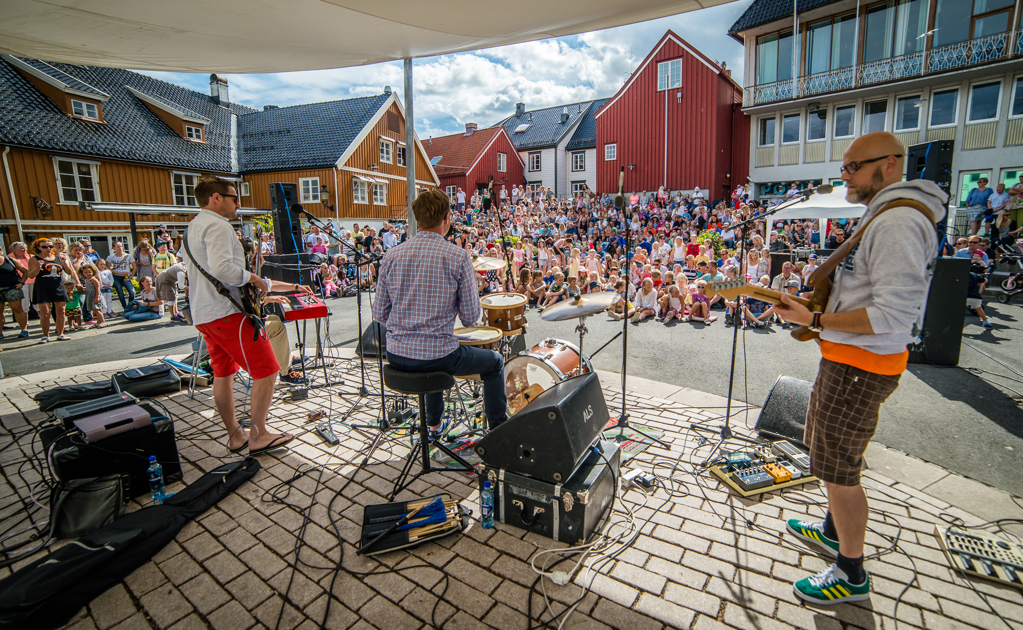 Bare Barn Band performing outdoors at during the music festival Canal Street. Kanalplassen, Arendal, Norway, July 2015.